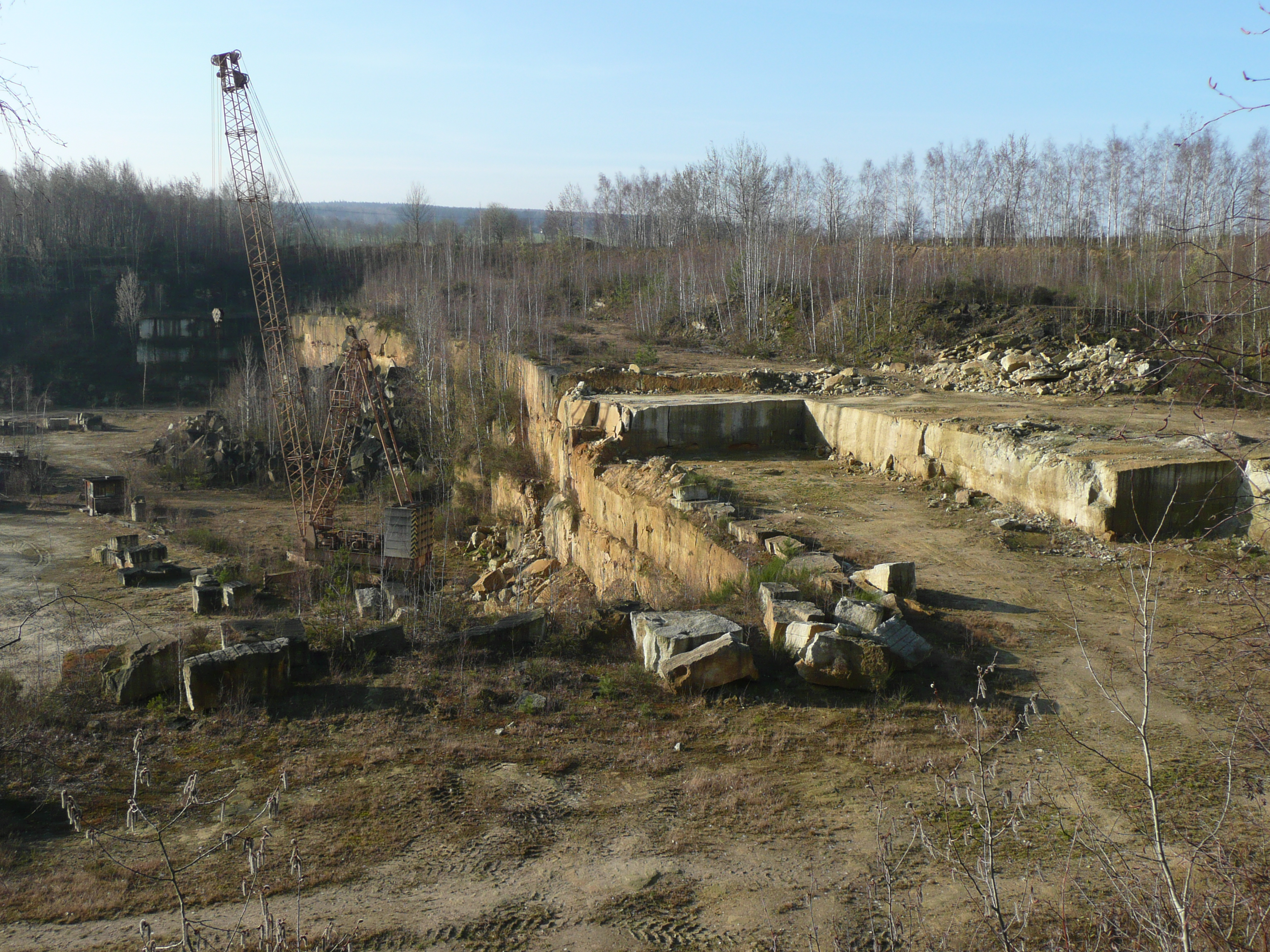 This image shows a sandstone-quarry in the Lohmgrund near Cotta.